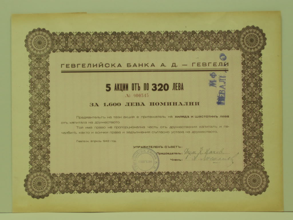 Gevgeliyska Banka Bond